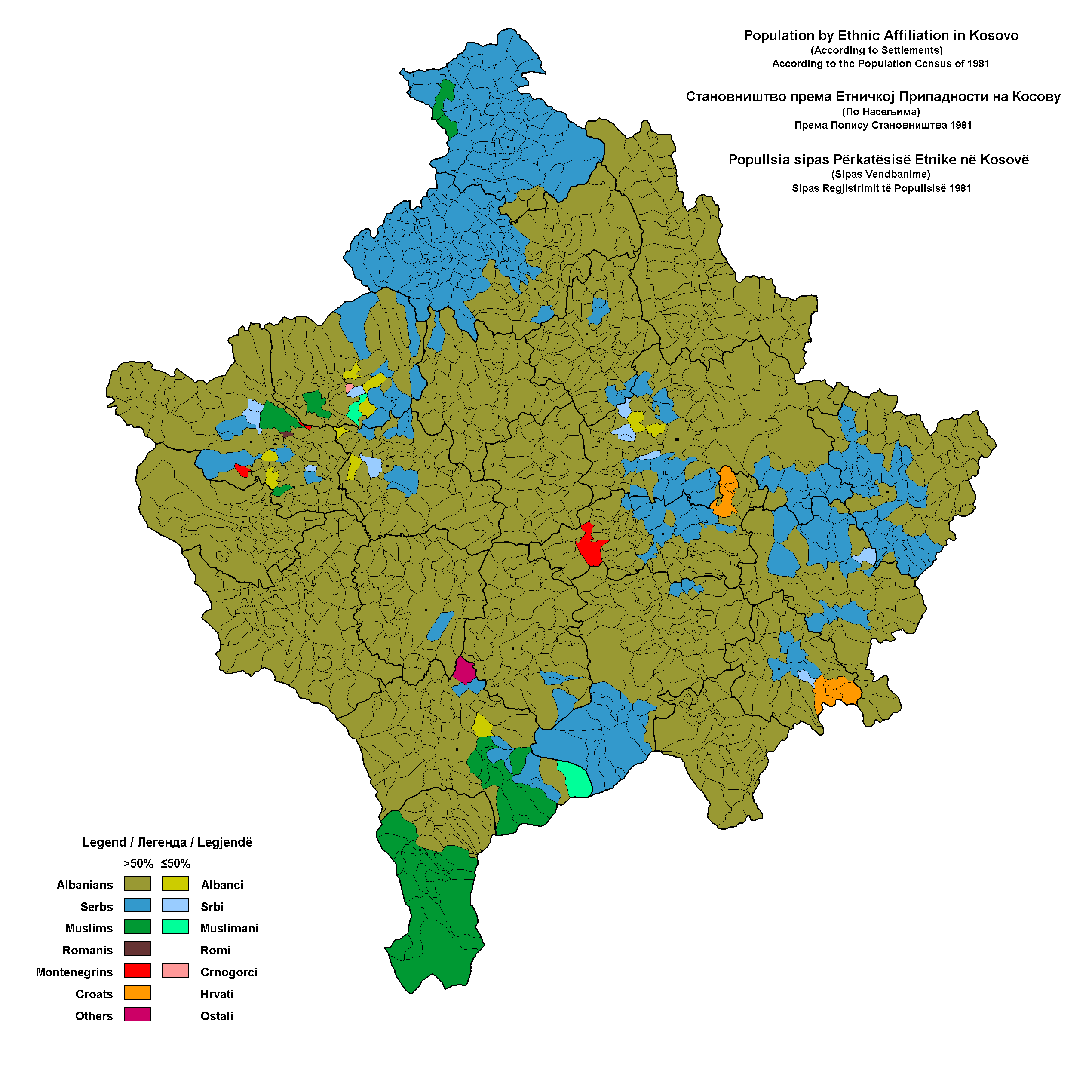 Ethnic map of Kosovo and Metohija, for the year 1981, according to settlements.